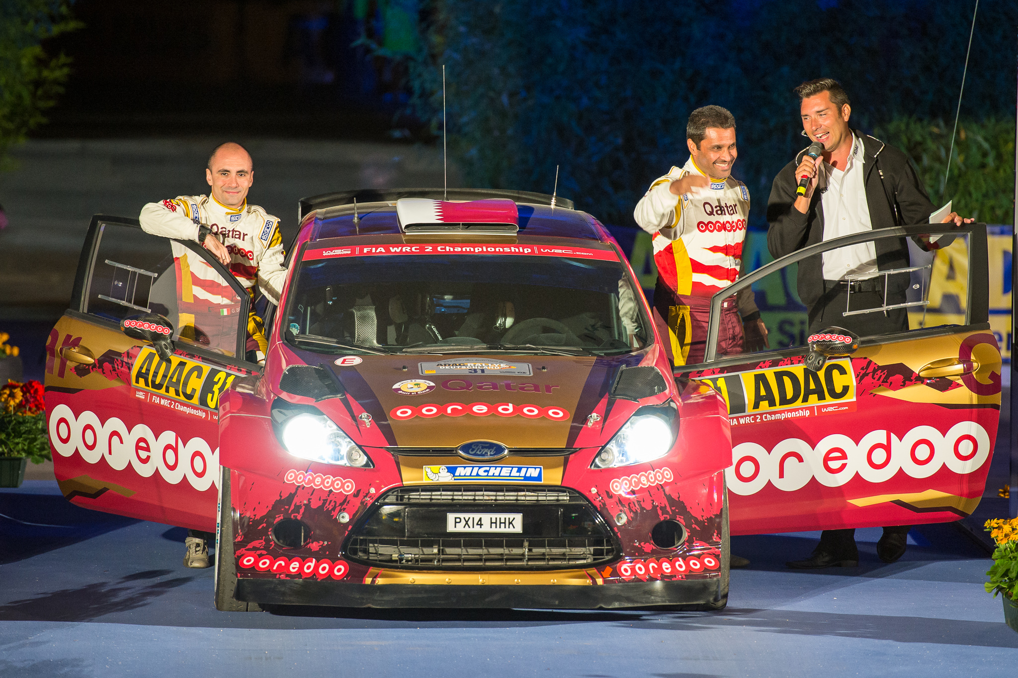 ADAC Rallye Deutschland 2014,Ceremonial Start,FIA,FIA World Rally Championship,Ford Fiesta RRC,Giovanni Bernacchini,Motorsport,Nasser Al-Attiyah,Rally,Rallye,Showstart,WRC 2,Zeremonienstart